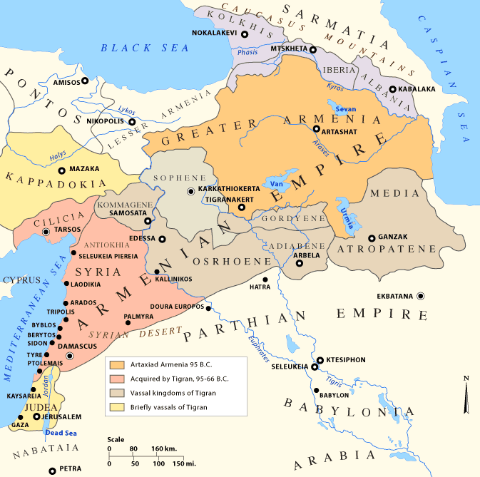 Early Armenian Empire of Tigranes, which existed between the final collapse of the Seleucids and the Roman conquest of the eastern Mediterranean.Original text: The Empire of Tigran the Great, 95-66 BC